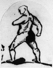 Jack Broughton, promotor of the London Prize Ring rules.